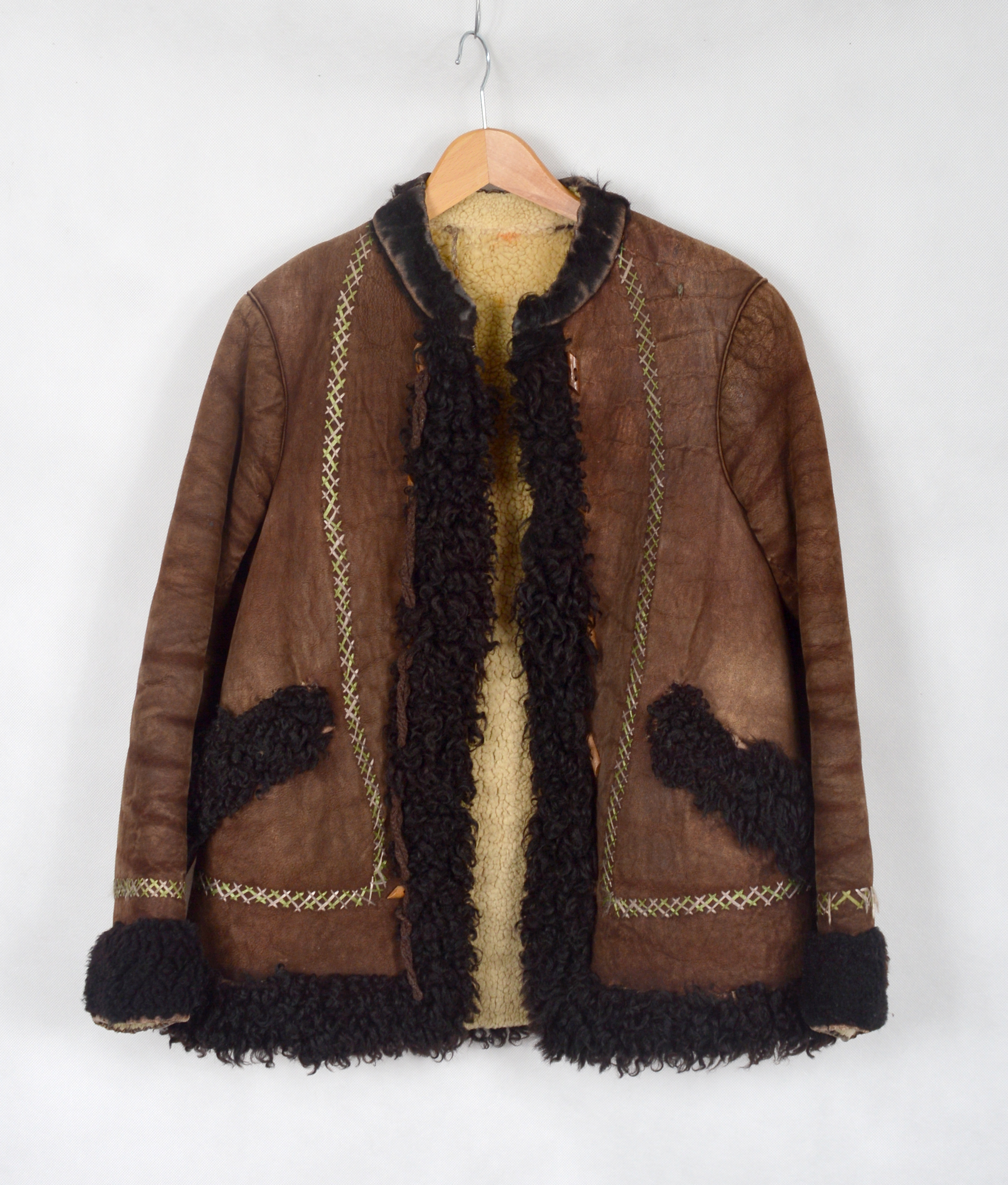 Fur coat, Żywiec Beskids